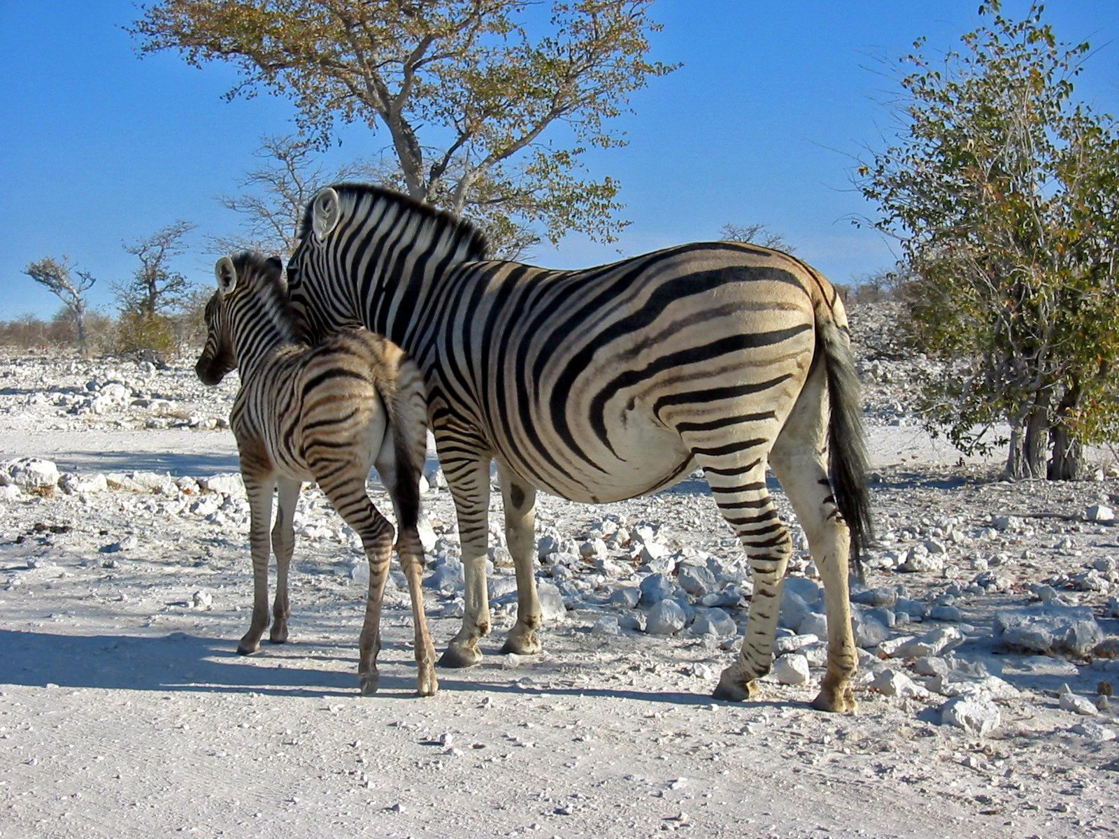 Burschell's Zebra (Equus quagga burchellii), Etosha National Park, Namibia